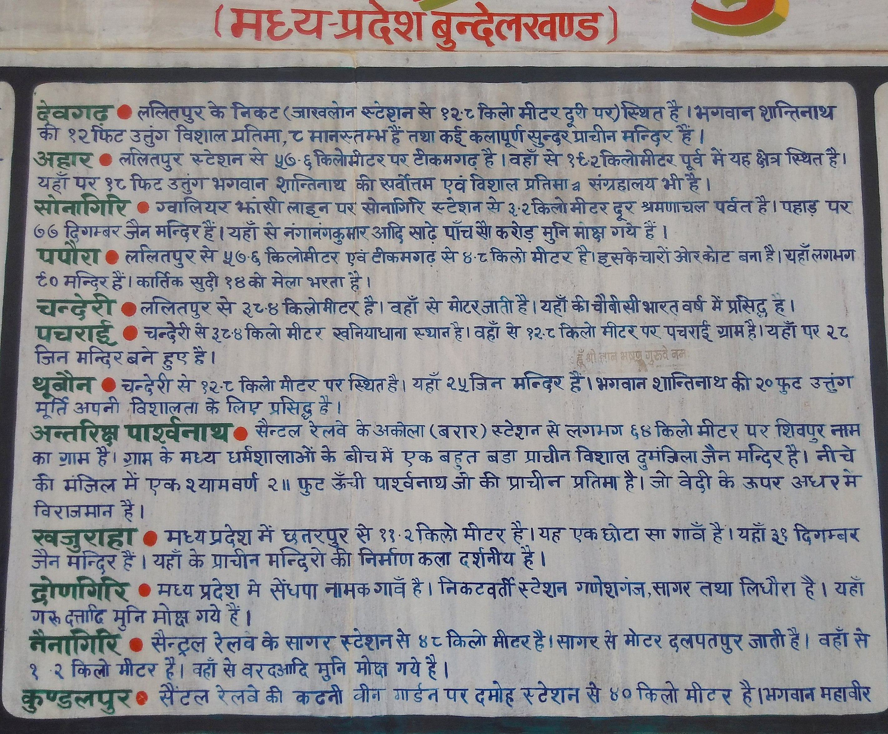 Jain tirth in Madhya Pradesh (Photo: Tijara Jain Temple)